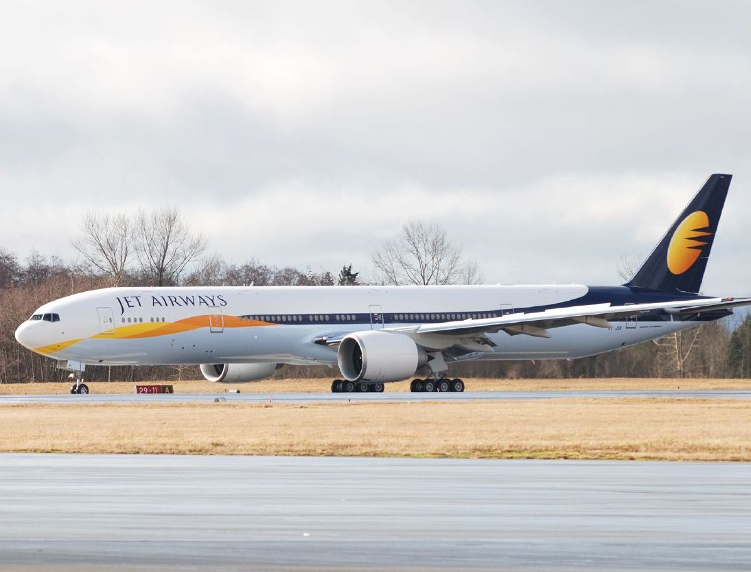 First flight Feb 5 2008